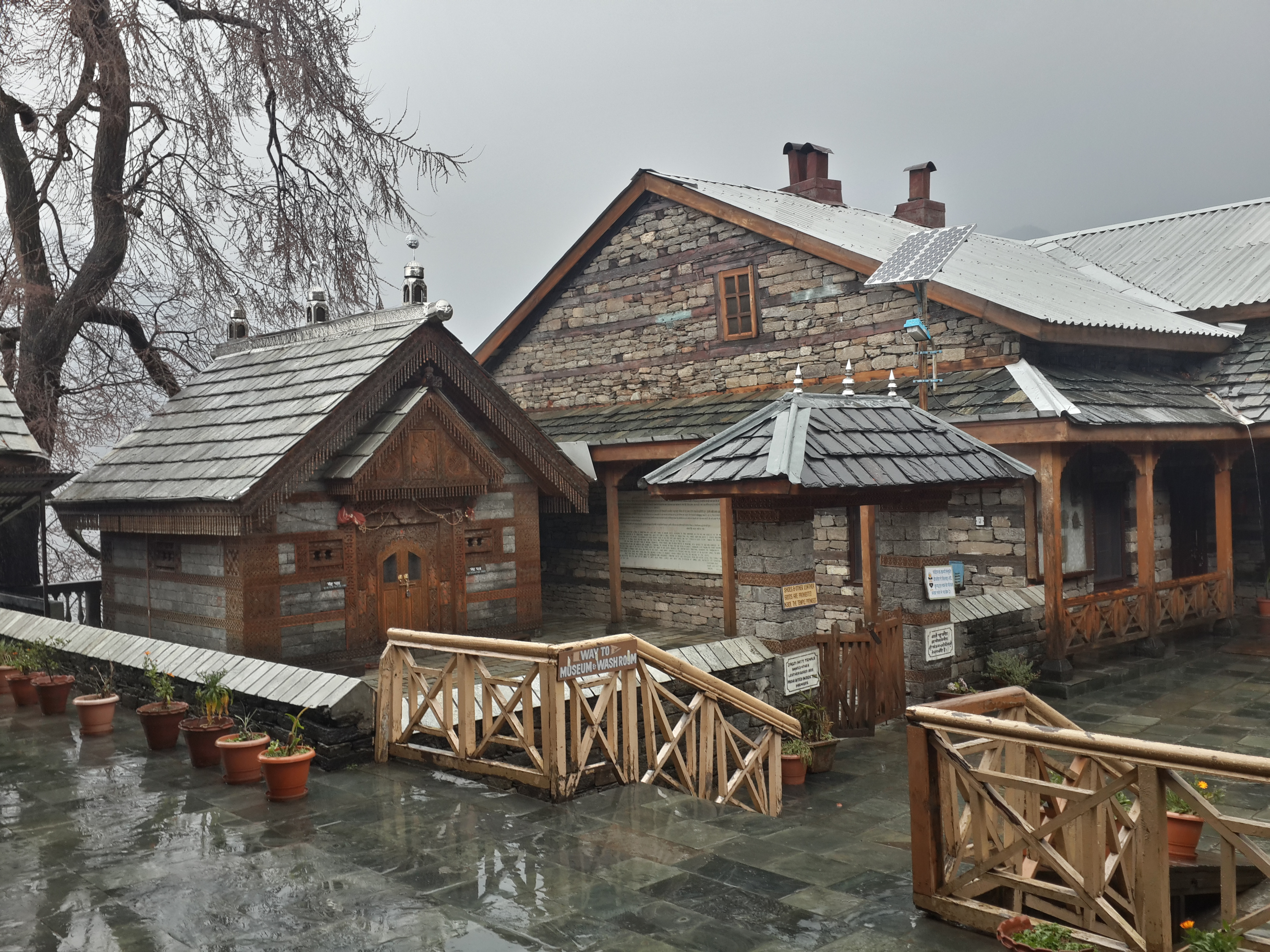 Naggar Castle constructed in local Himalayan architecture in Naggar, district Kullu, Himachal Pradesh, India.